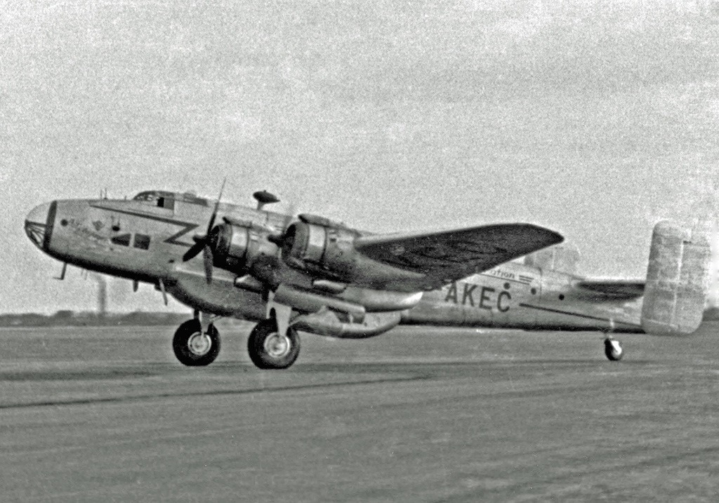 Handley Page Halifax C.VIII G-AKEC of Lancashire Aircraft Corporation at Manchester (Ringway) Airport on February 1950